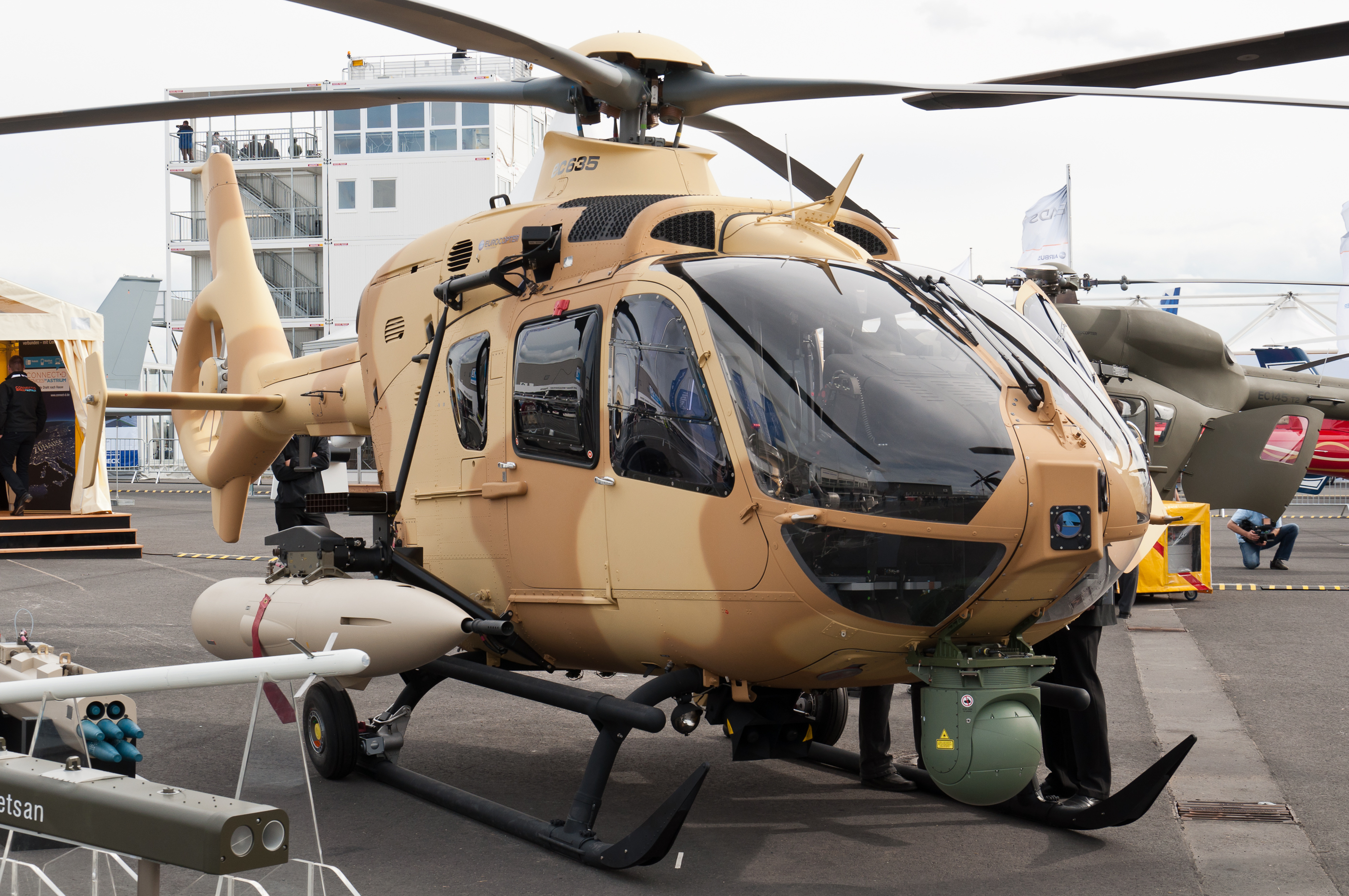 Eurocopter EC 635 mock-up at ILA Berlin Air Show 2012.